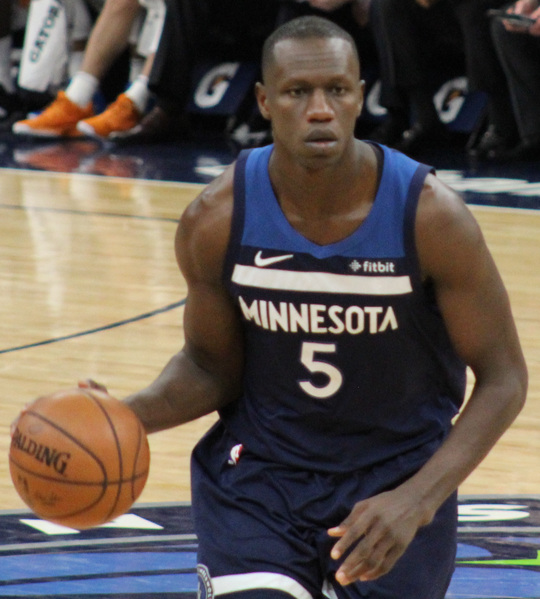 Gorgui Dieng of the Minnesota Timberwolves